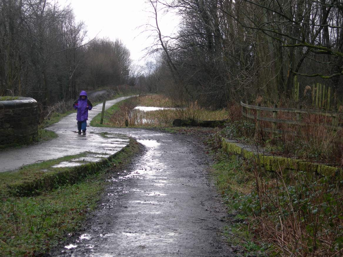 Daisy Nook. Fairbottom branch, west of Bardsley Bridge